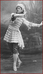 Nijinsky as the God Vayou in Marius Petipa's "Le Talisman", 1909.